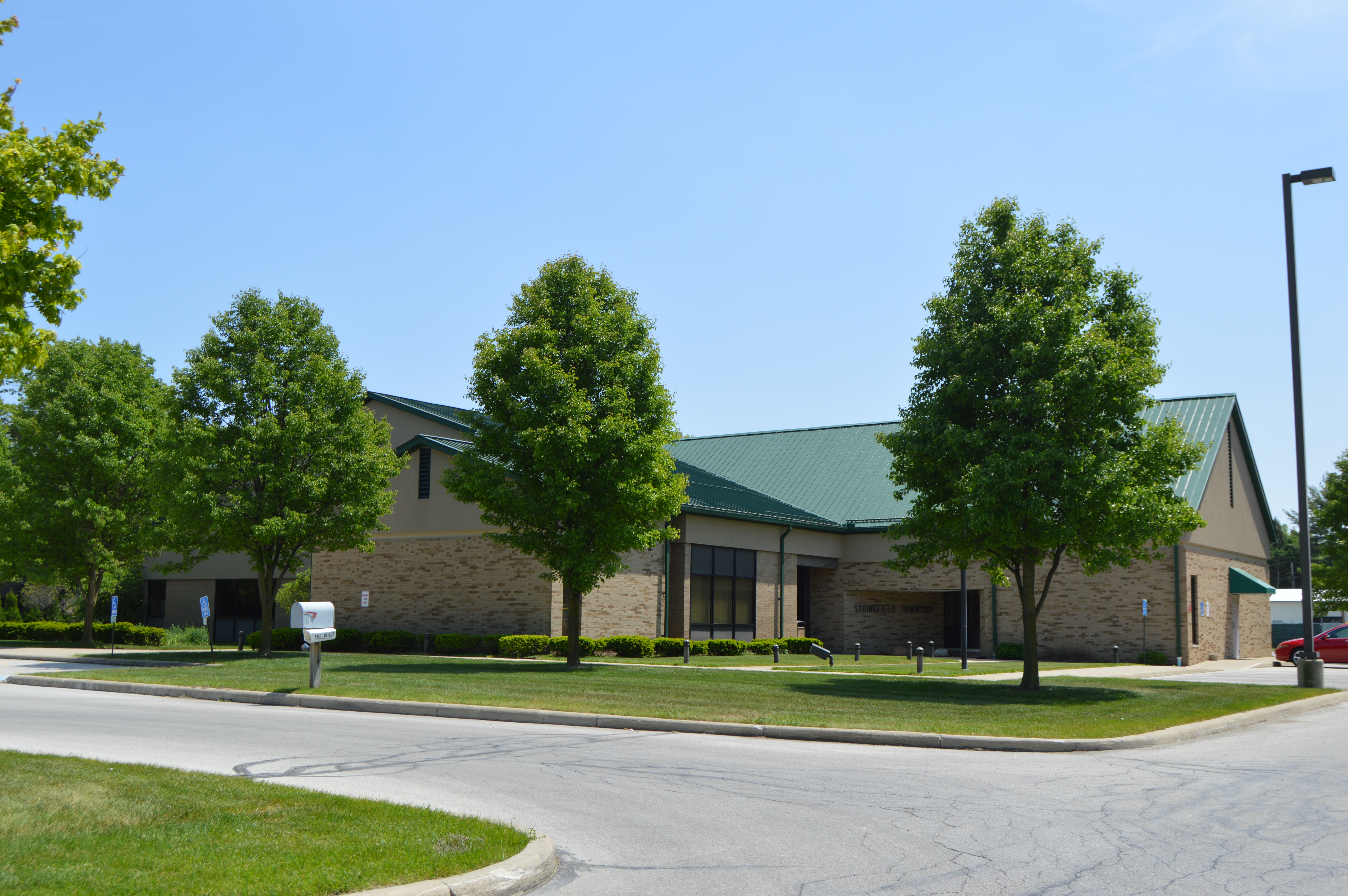 Front and western side of the Springfield Township hall, located at 7617 Angola Road in Springfield Township, Lucas County, Ohio, United States.